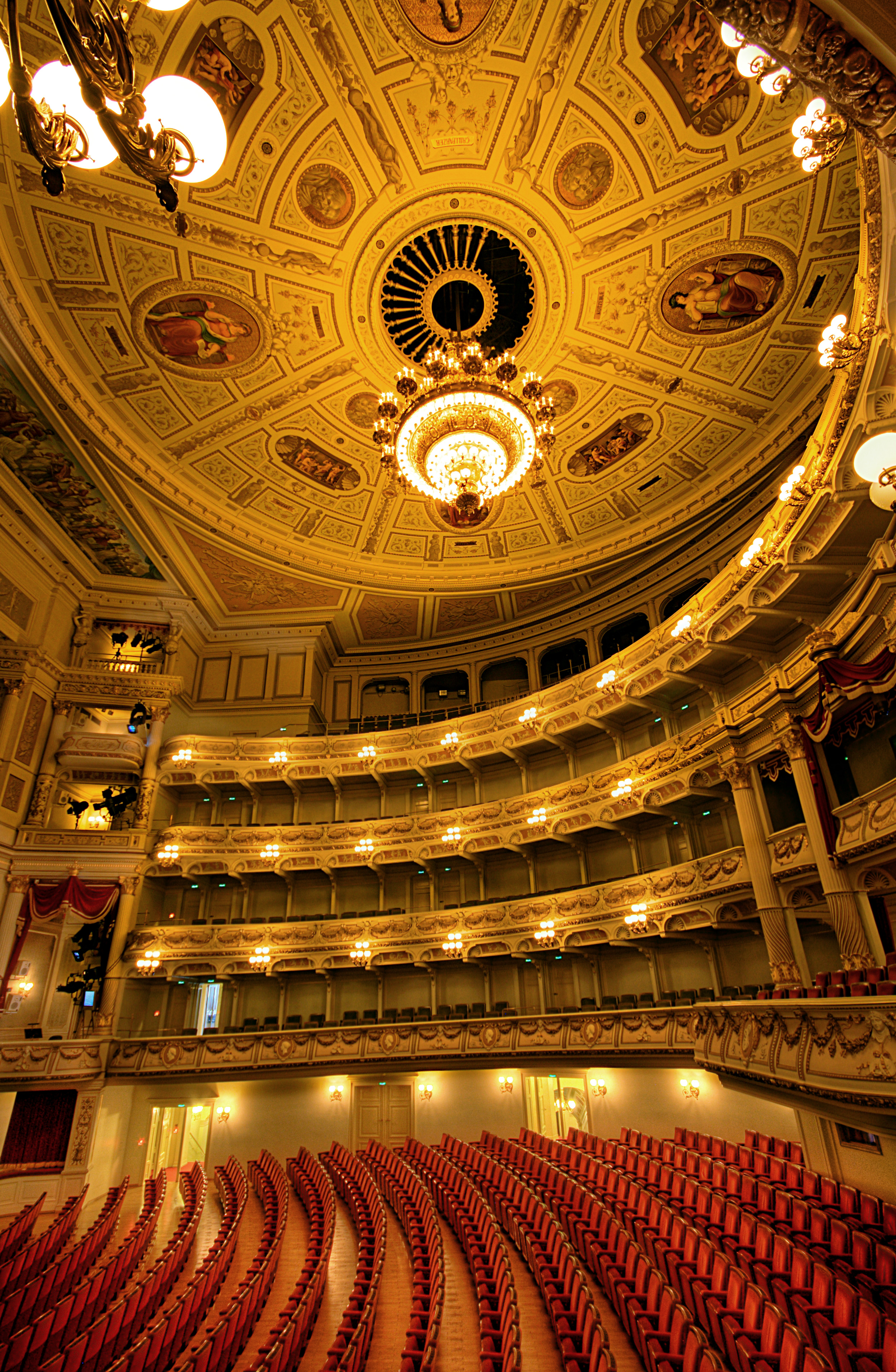 Inner view of the Semperoper in Dresden.